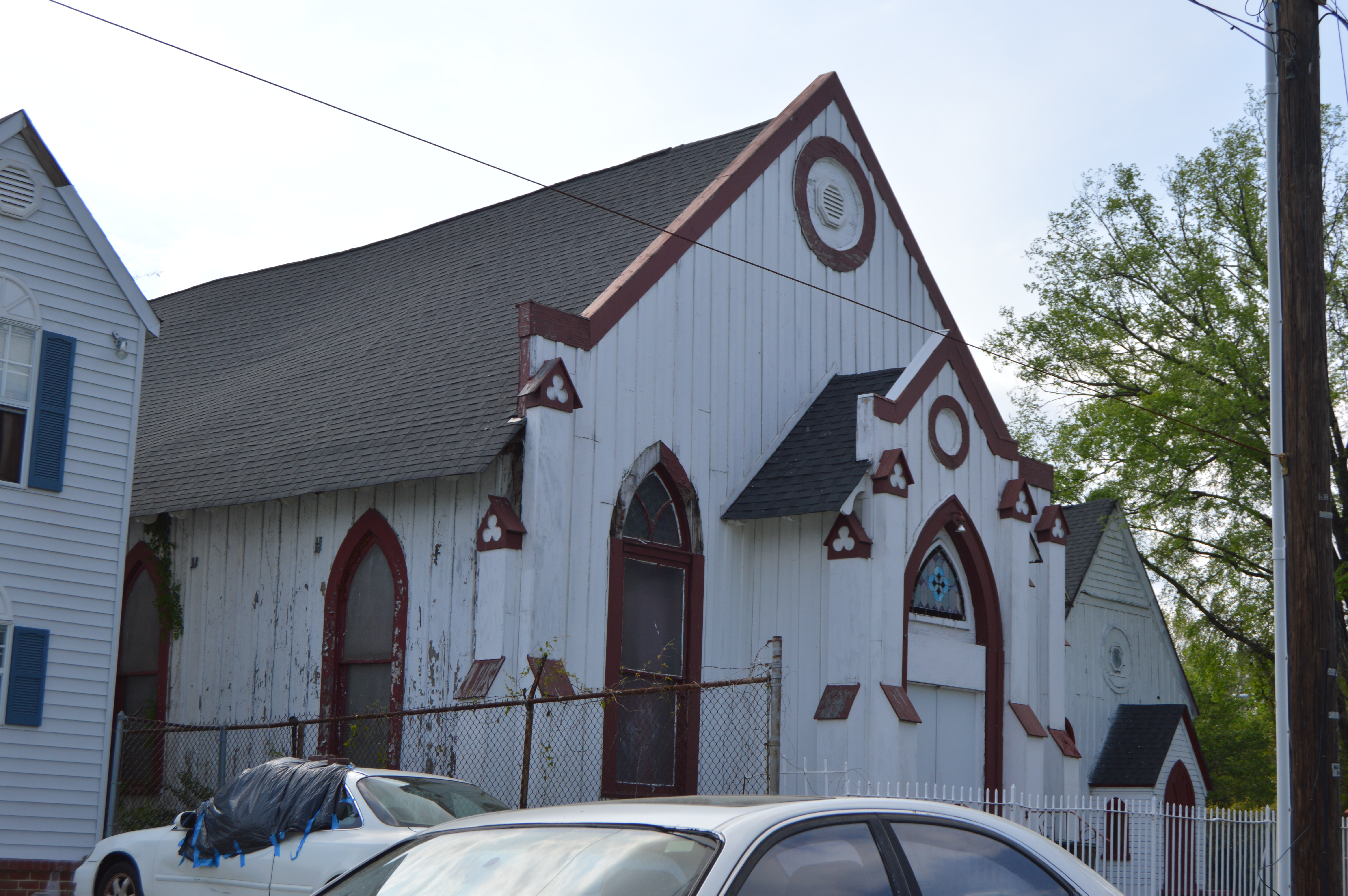 Front of the former St. Peter's Episcopal Church, located at 1625 Brown Avenue in Norfolk, Virginia, United States. Built in 1886, it is listed on the National Register of Historic Places.